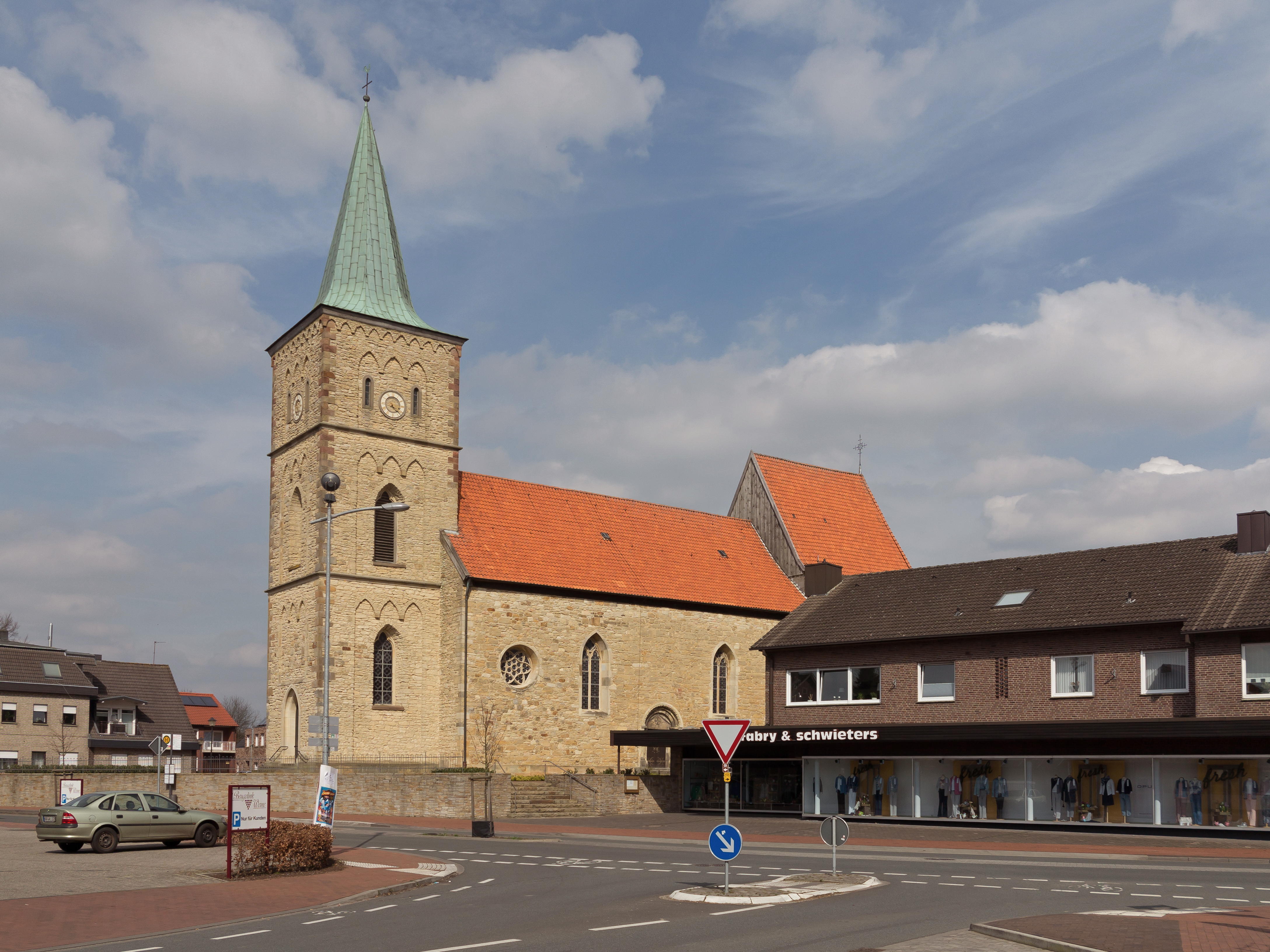 Heek, church: die katholische Pfarrkirche HeekThis is a photograph of an architectural monument., no. 3